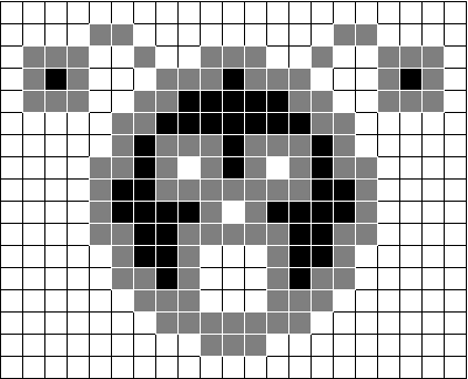 Erosion